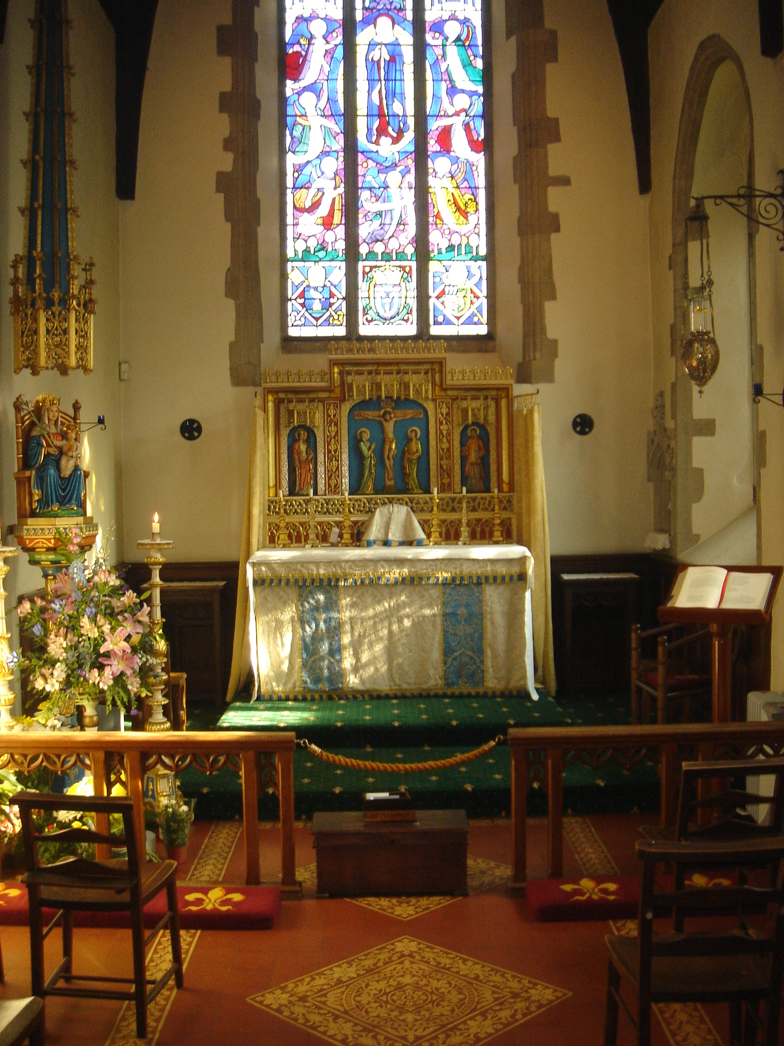 The altar and shrine in the Slipper Chapel.